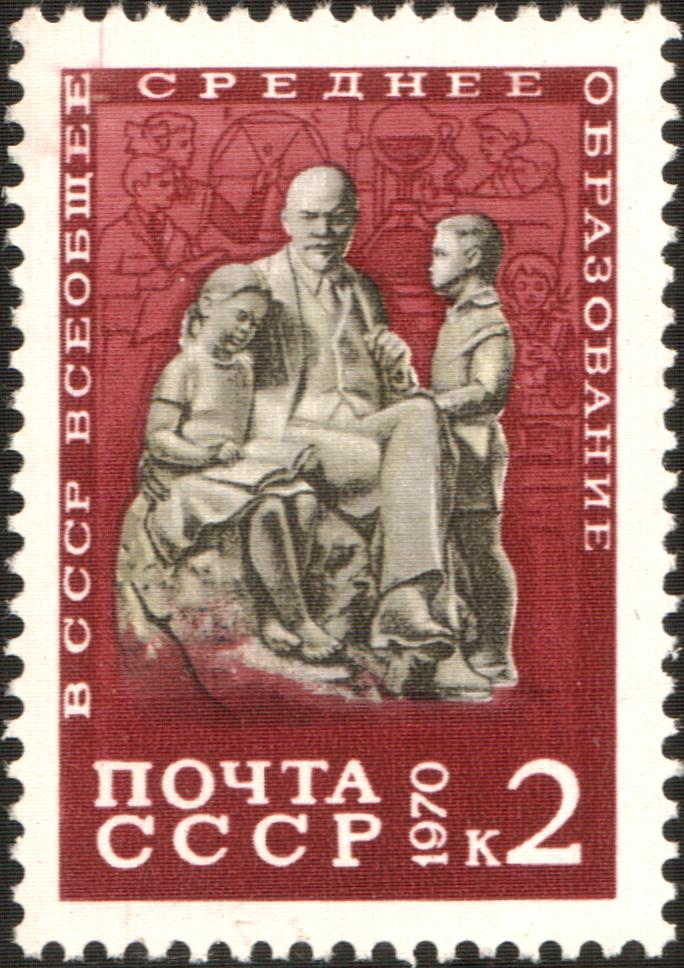 USSR stamp: “Lenin with Children” (Sculpture, N. Shcherbakov). Series: Pioneer Organization